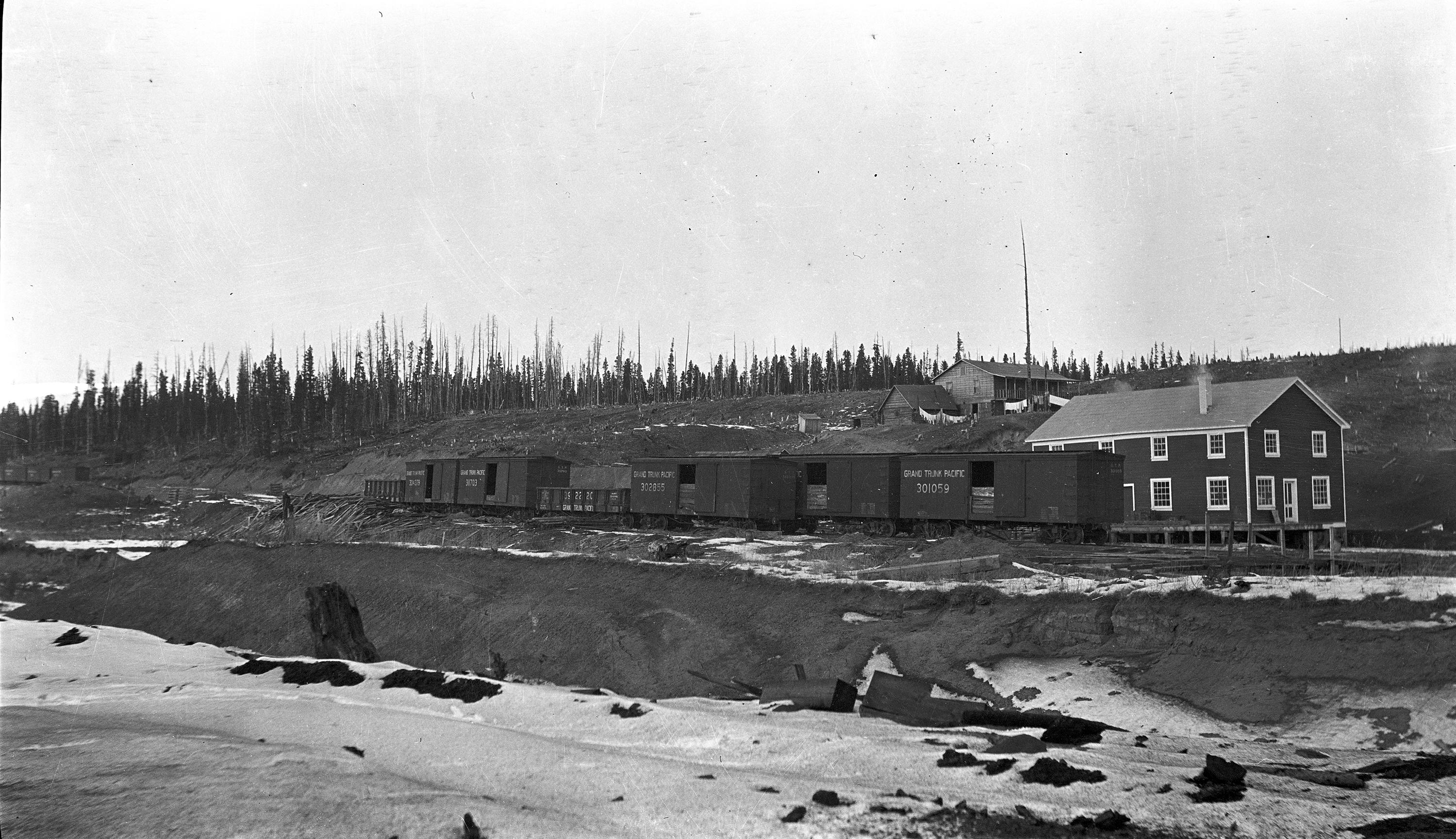 Lovett, Alberta. ca. 1915. From the Godby Family fonds, PR2009.0441/15.